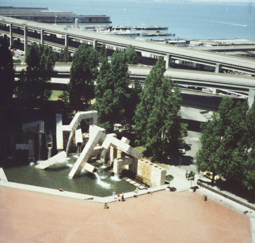 The Embarcadero Freeway (I-480) as seen from the Hyatt Regency, San Francisco, in 1988. Also shown in this picture are the Vaillancourt Fountains. Behind the trees is the on-ramp from Clay Street (top deck) and the off-ramp to Washington Street (lower deck). After the 1989 earthquake damaged this freeway, it was torn down in 1991.